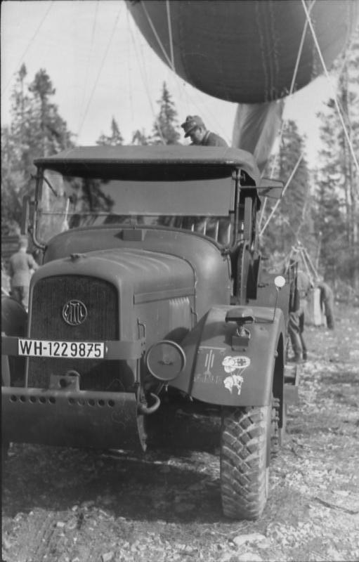 Latil truck (M2TL ?) (former French). Registration number: WH-1229875